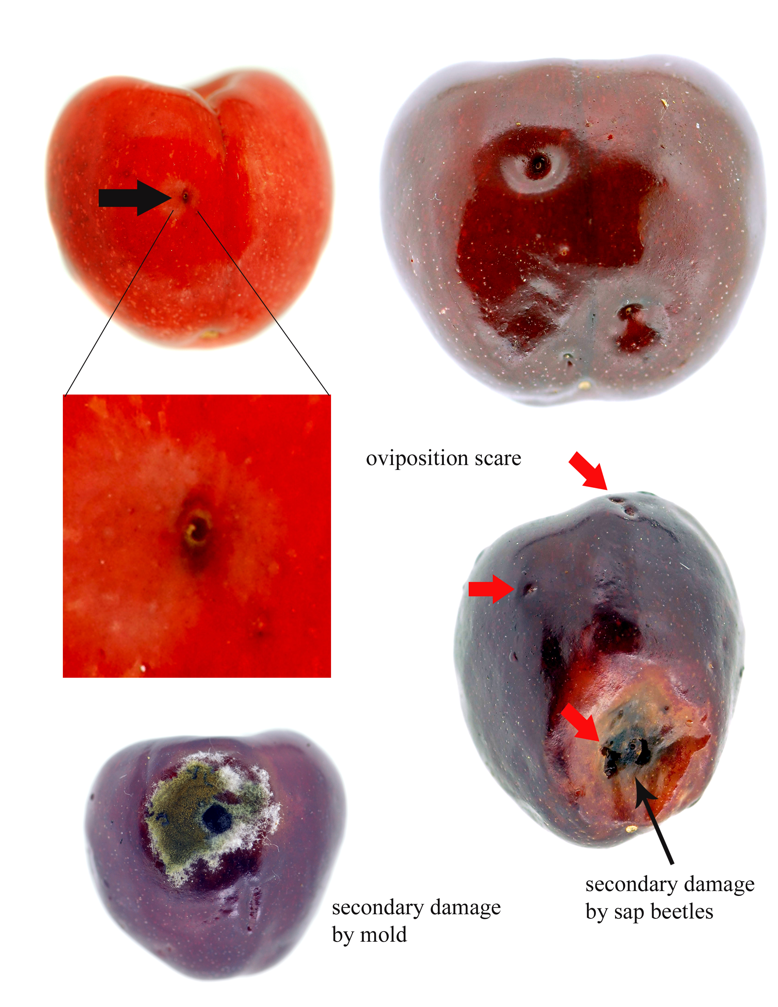 Drosophila suzukii - Symptome auf der Kirsche - Martin Hauser, California